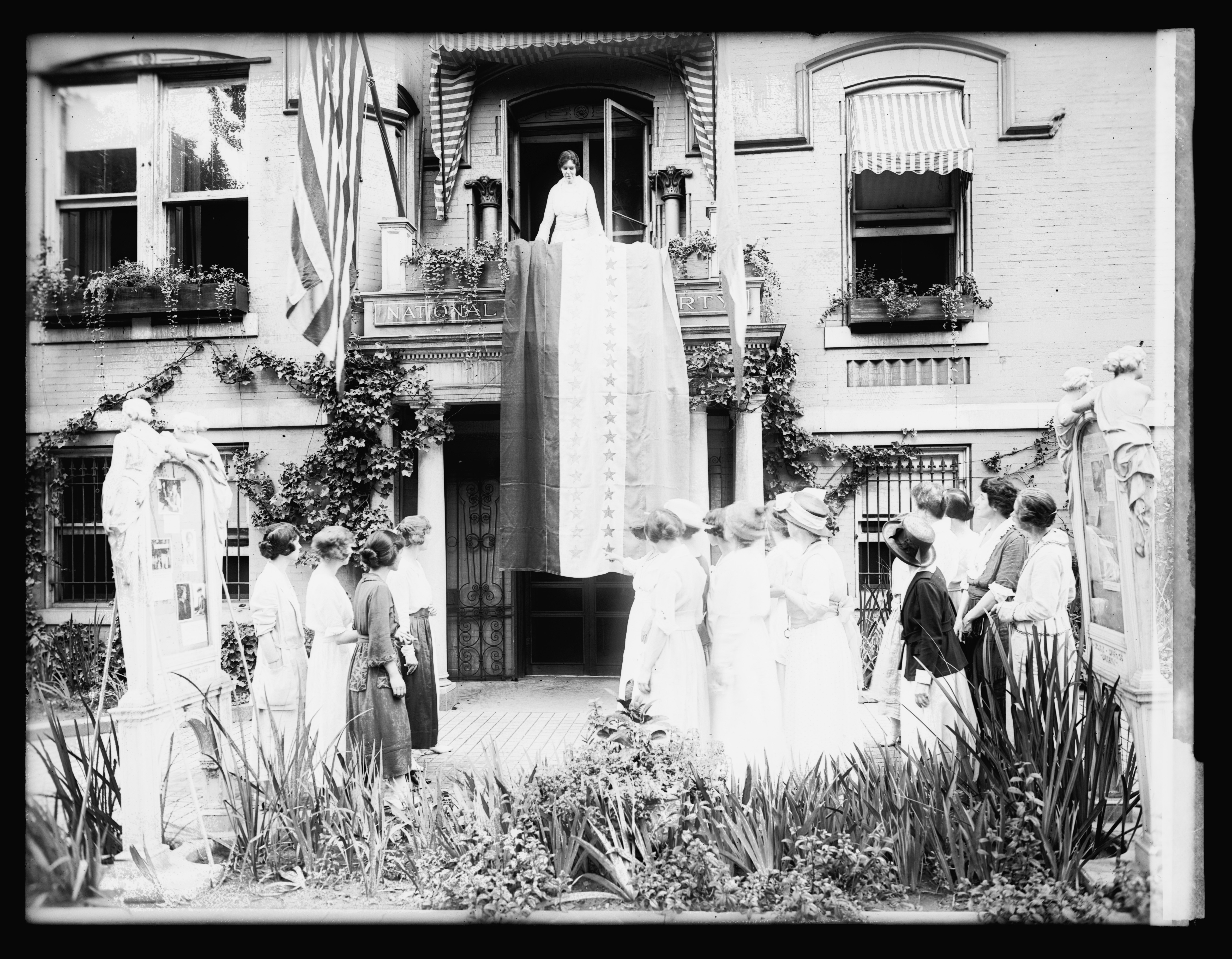 Title: Suffragettes, Miss Paul raising suffrage ratification banner Abstract/medium: 1 negative : glass ; 8 x 6 in.